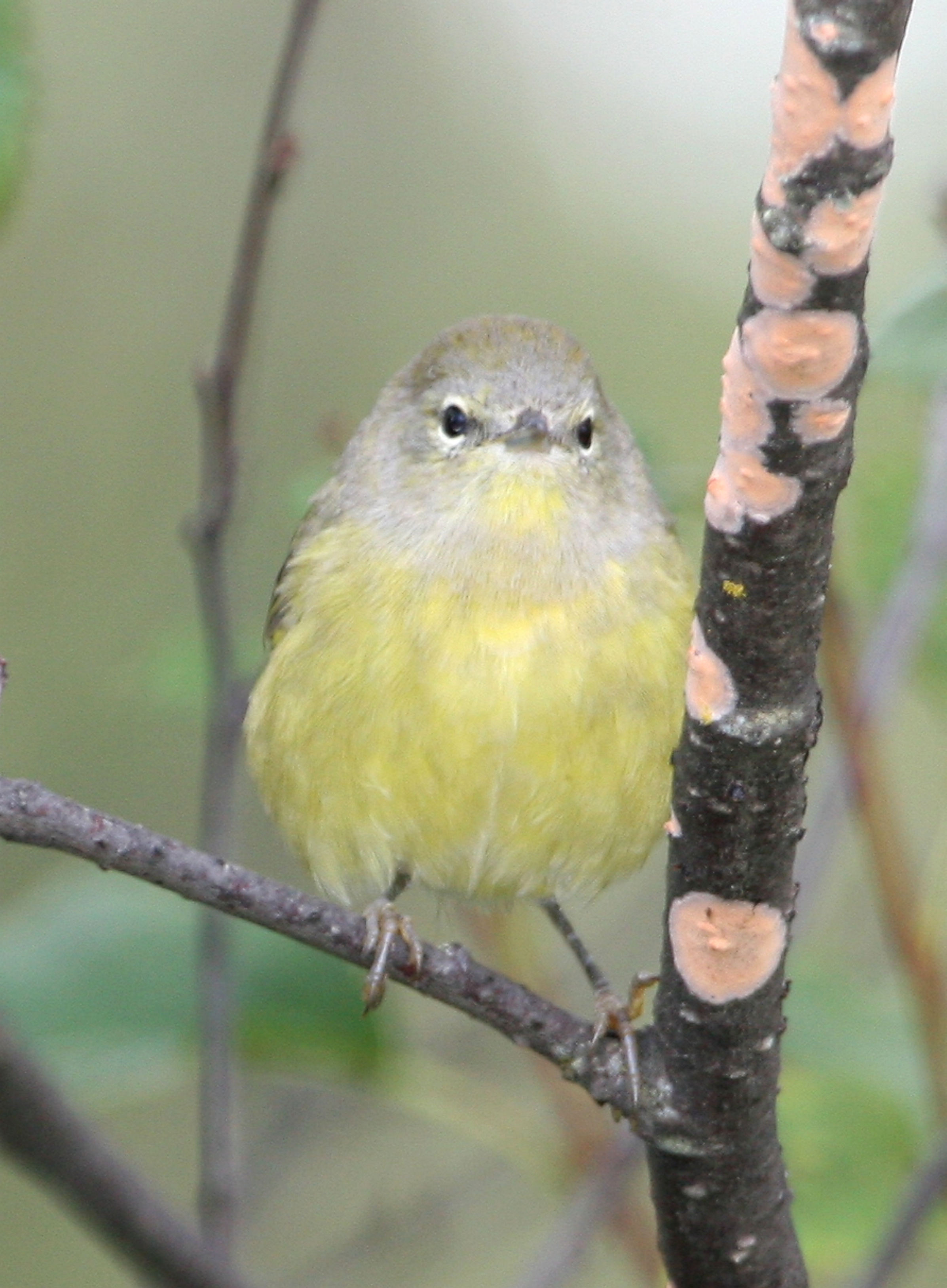 Orange-crowned Warbler, subspecies Vermivora celata celata